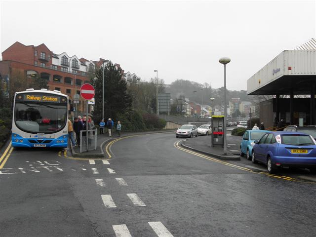 Railway Station bus, Derry / Londonderry. Stopping to let passengers off outside the railway station at Waterside.